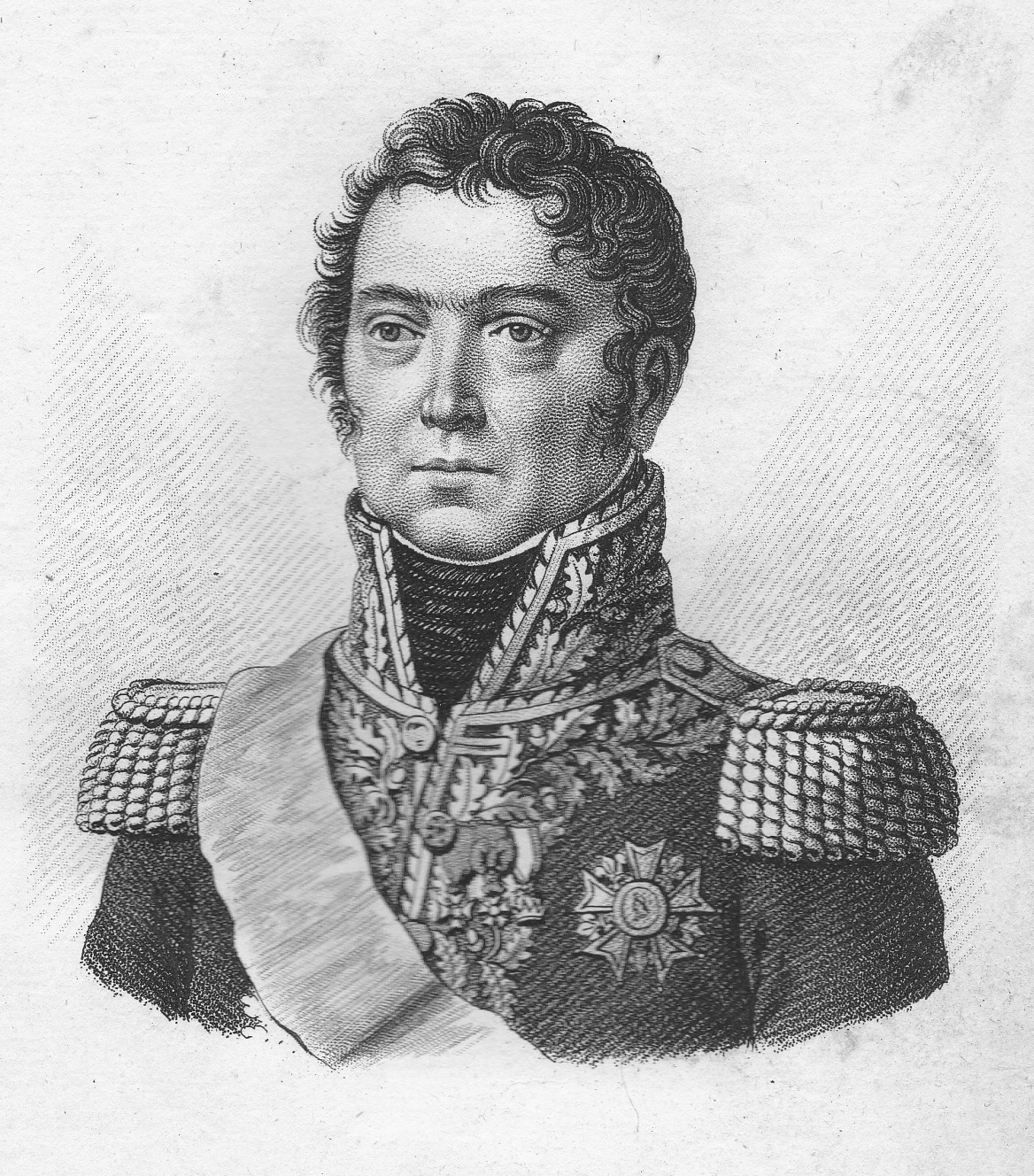 General Paul Grenier. A very able tactician, he distinguished himself in Italia during the campaigns of 1809, 1813 and 1814 against the Austrians.